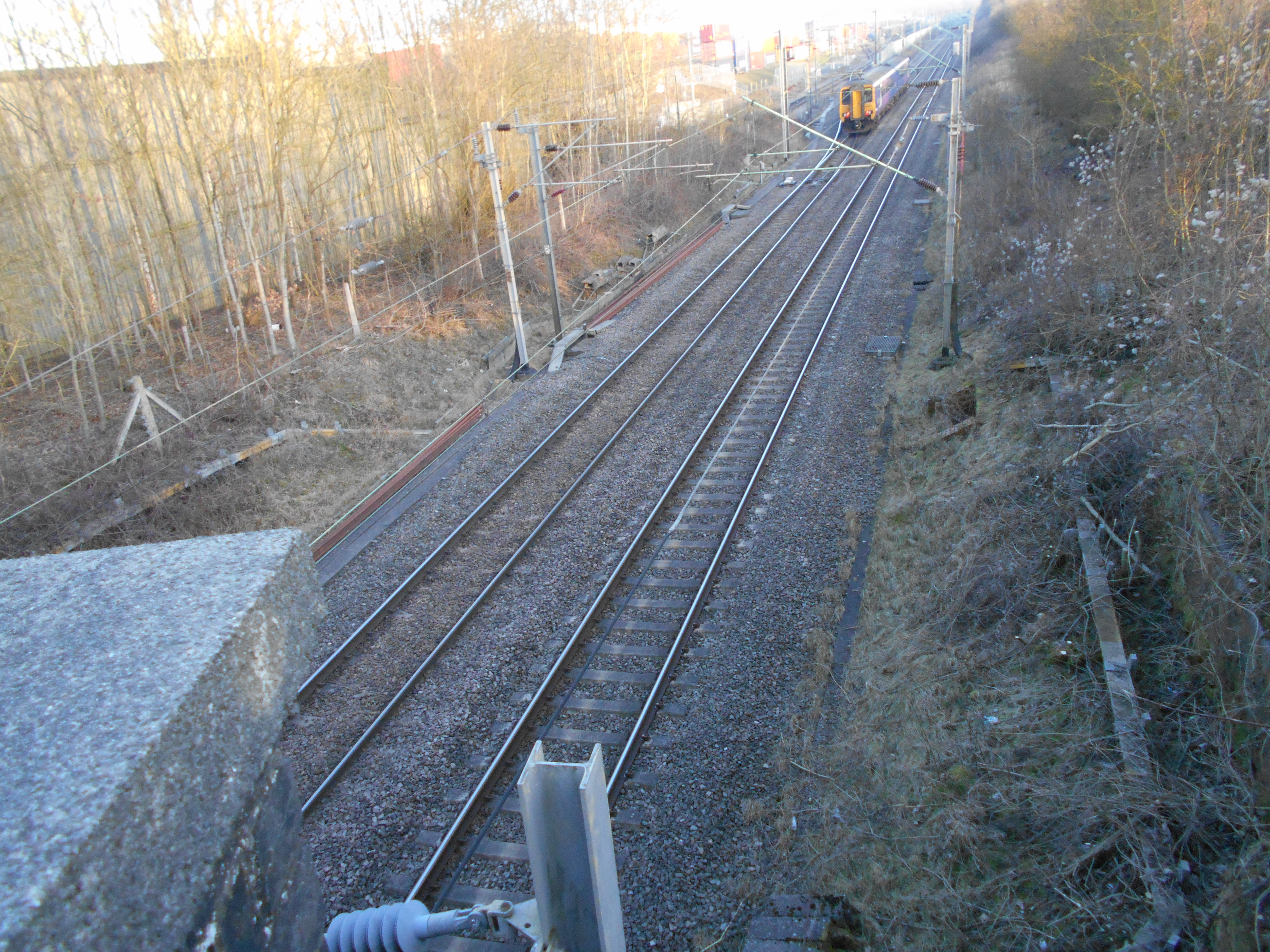 Kilsby and Crick railway station site